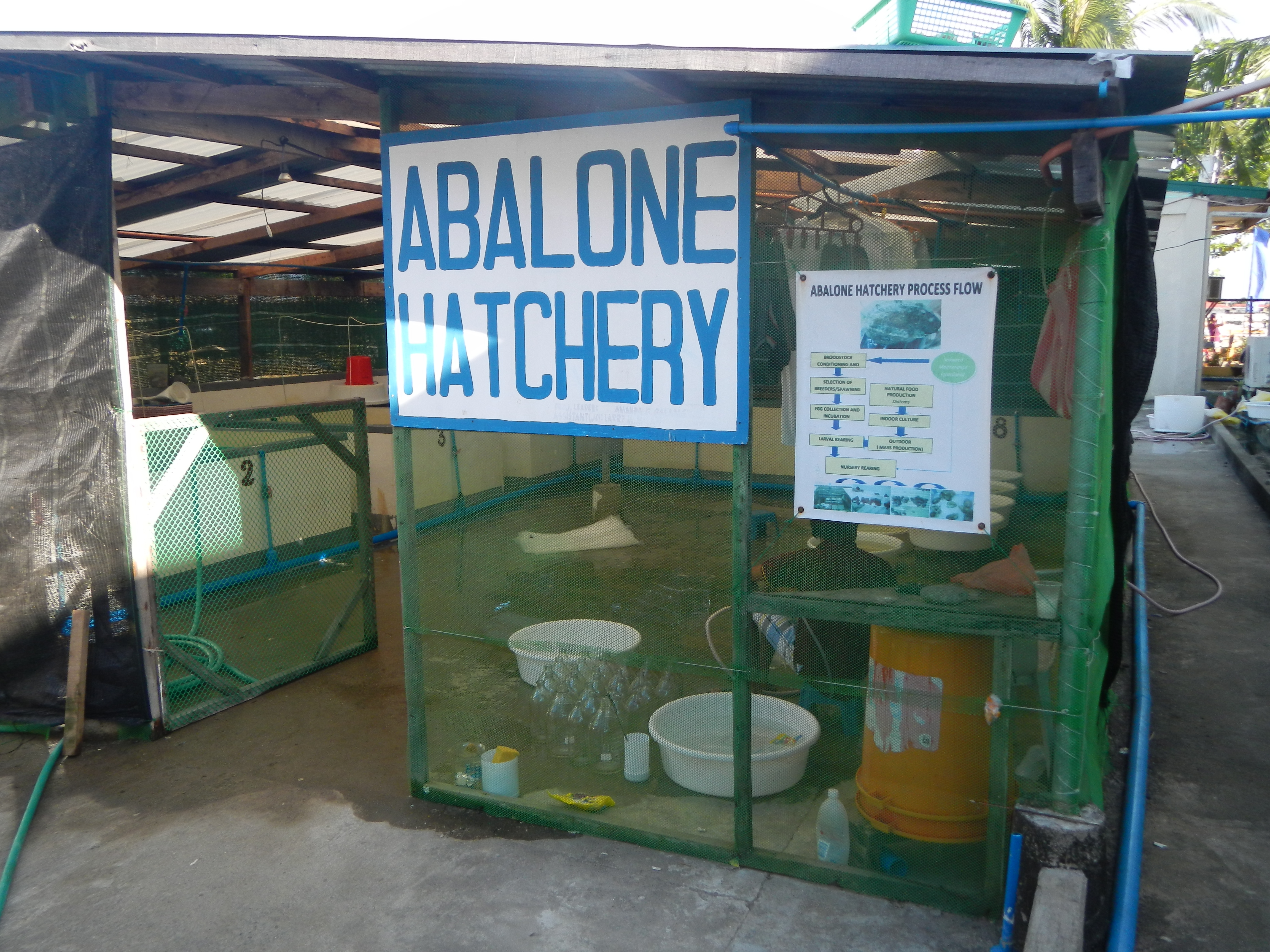 Multi-Species Fish and Invertebrate Breeding and Hatchery, (Oceanographic Marine Laboratory in Alaminos) Lucap, Alaminos, Pangasinan[1] Department of Agriculture, Bureau of Fisheries and Aquatic Resources, Regional Mariculture Technodemo Center (RMaTDeC) - April 20, 2011